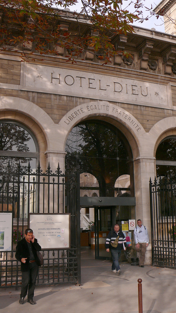 The south facade of Hôtel-Dieu de Paris